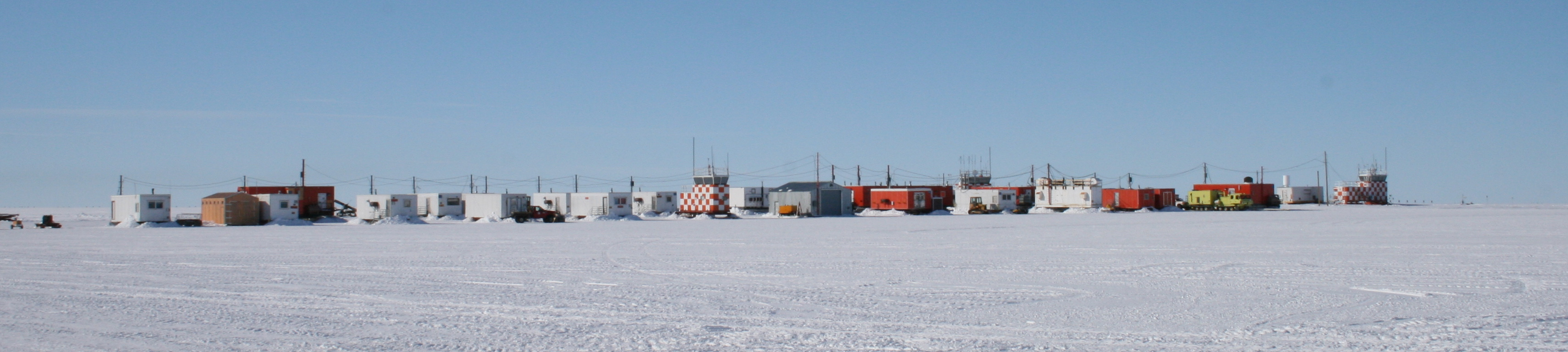 Williams Field in Antarctica as seen from the Cargo Line of the field looking back at the support structures